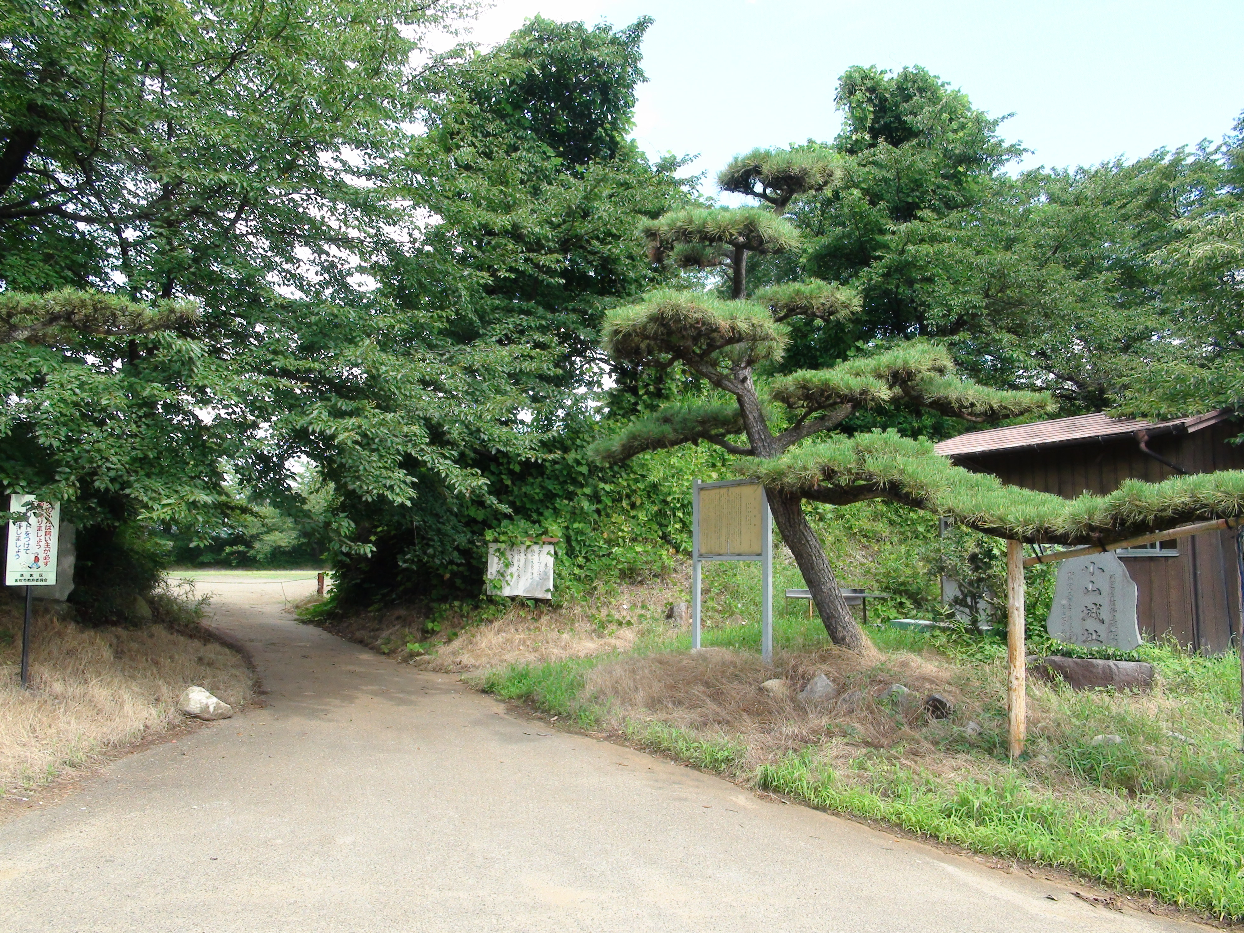 Earth Wall of the Koyama Castle Kai Province